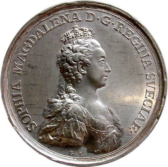 Commemorative coin of Queen Sophia Magdalene of Sweden wearing the crown of the Queen